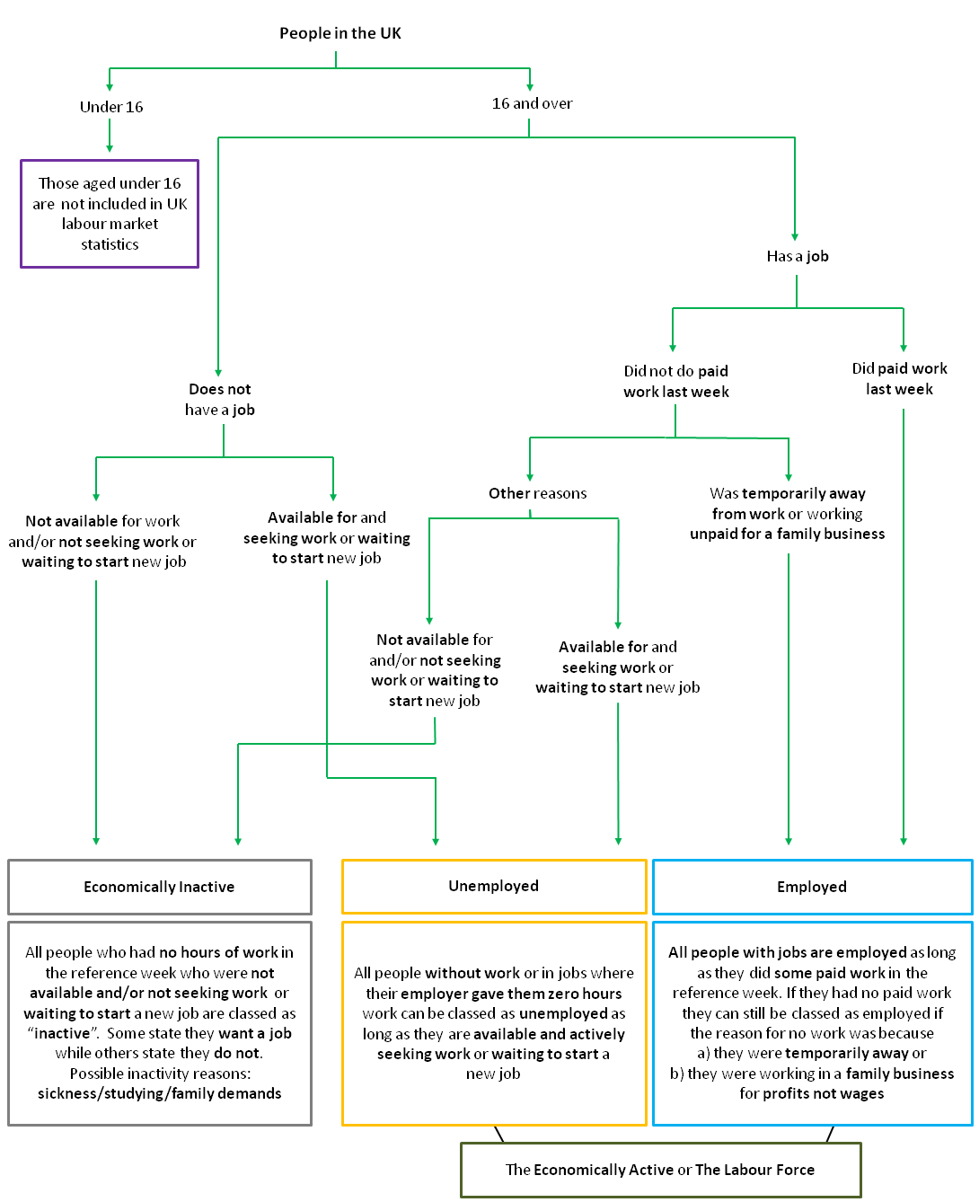 A flow chart showing the different categories of the UK Labour Market. Describes how people can end up classified as employed, unemployed, economically inactive and economically active.